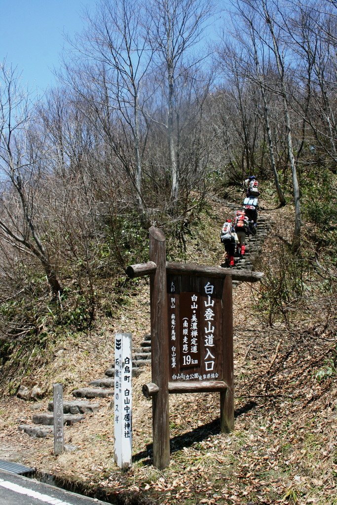 Entrance_of_mountain_climbing_trail_Itoshiro_2010_5_3